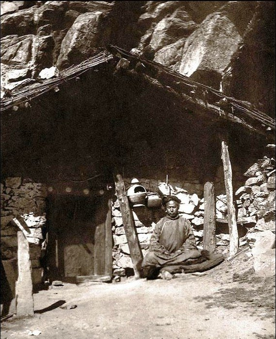 Lachen Gomchen Rinpoche